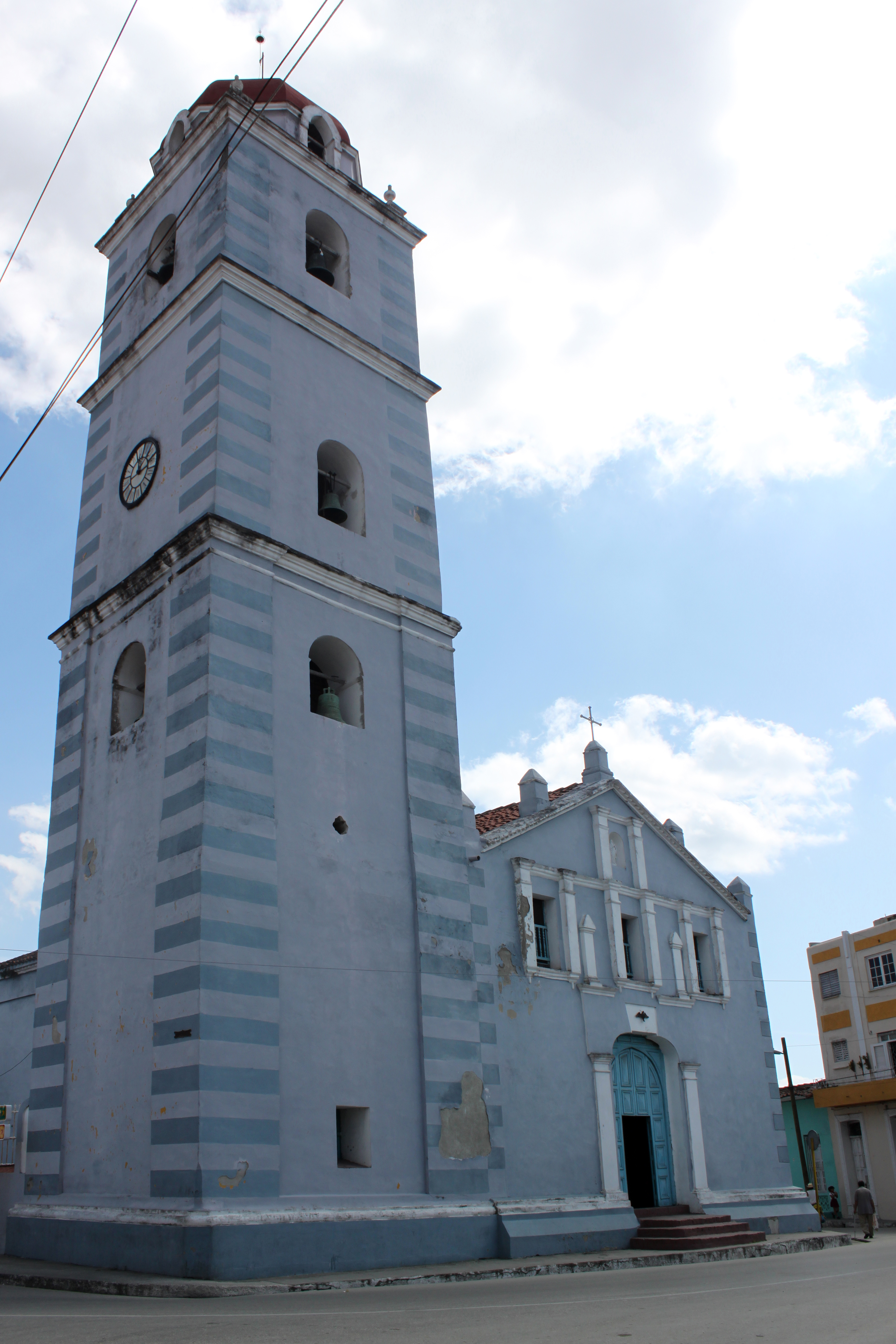 Parroquial Mayor, Cathedral of Sancti Spiritus, Cuba